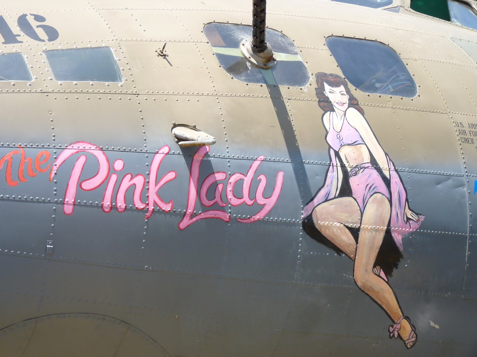 Close-up on Pink Lady's pin-up girl.